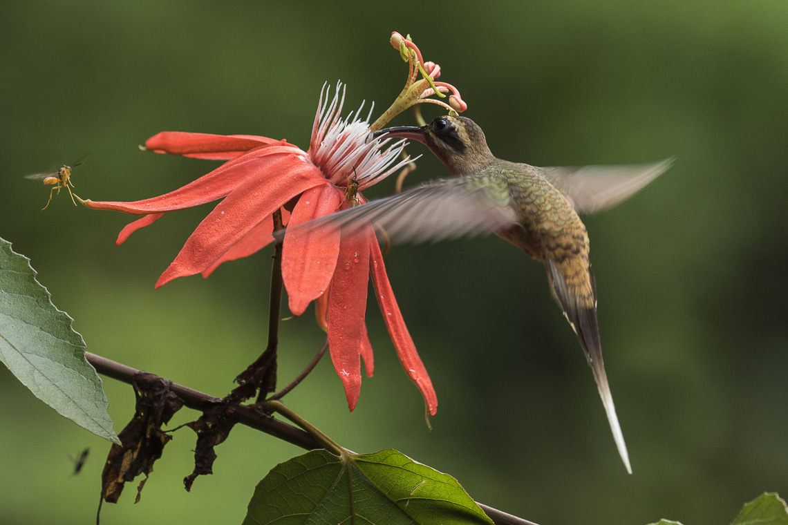 Western Long-tailed Hermit - Sarapiqui - Costa Rica_MG_0149